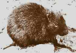 Mesocapromys angelcabrerai USFWS photo